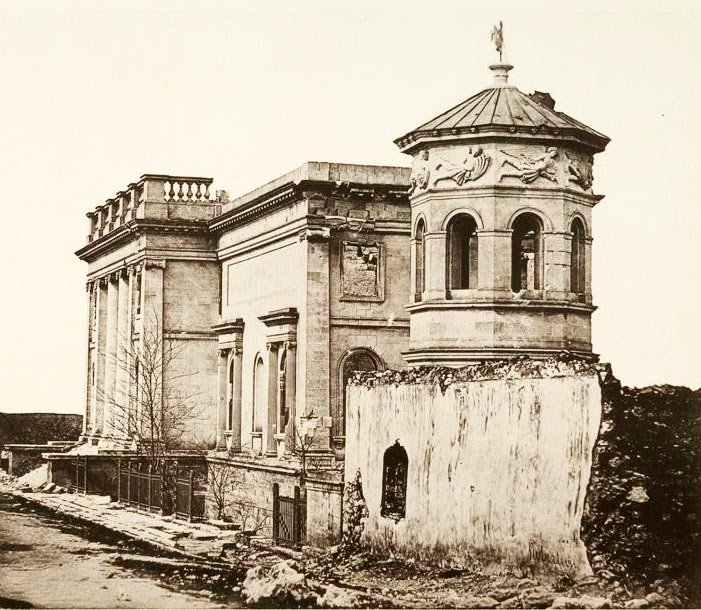 Башта вітрів (Севастополь)